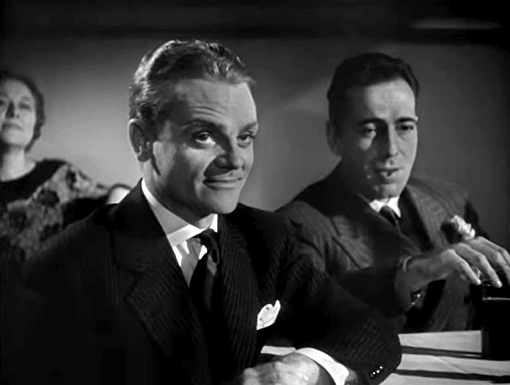 screenshot of James Cagney and Humphrey Bogart from the trailer for the film The Roaring Twenties